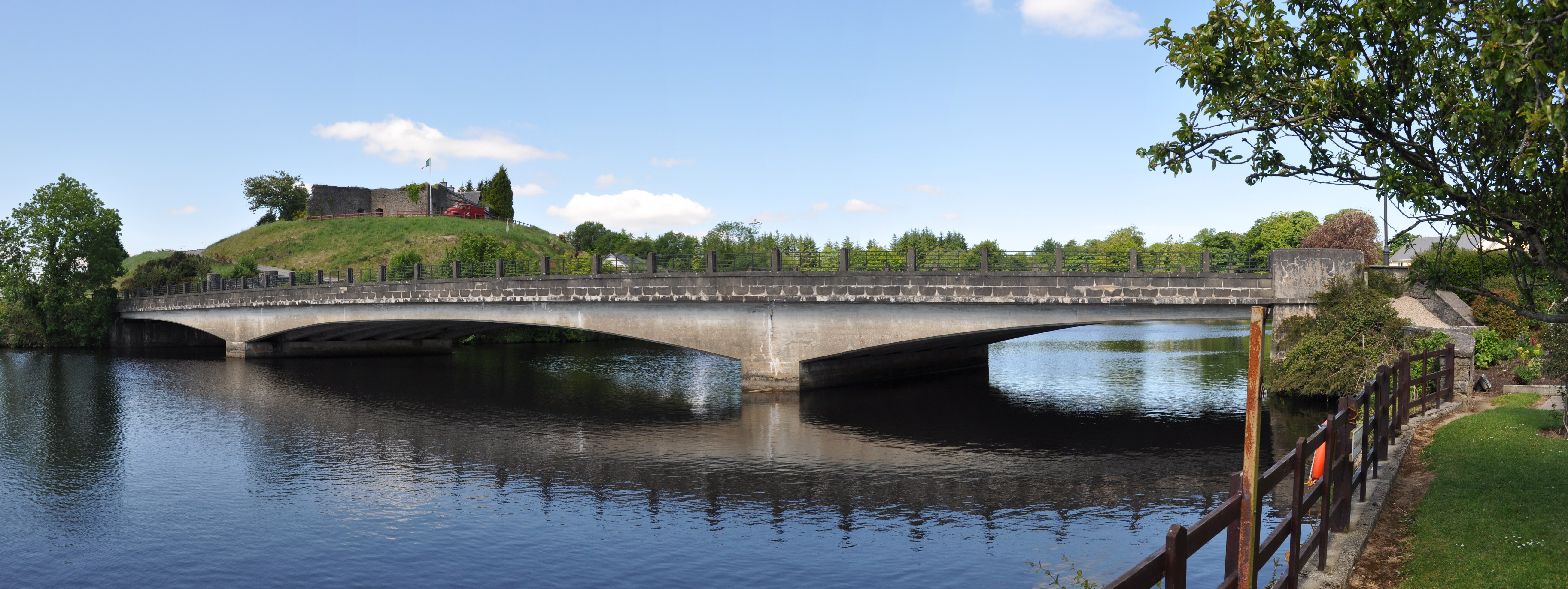 This is a photo of the bridge in Belleek, County Fermanagh, Northern Ireland. Taken from the northern border side within the grounds of the belleek pottery factory. Belleek fort is also visible in this photograph.